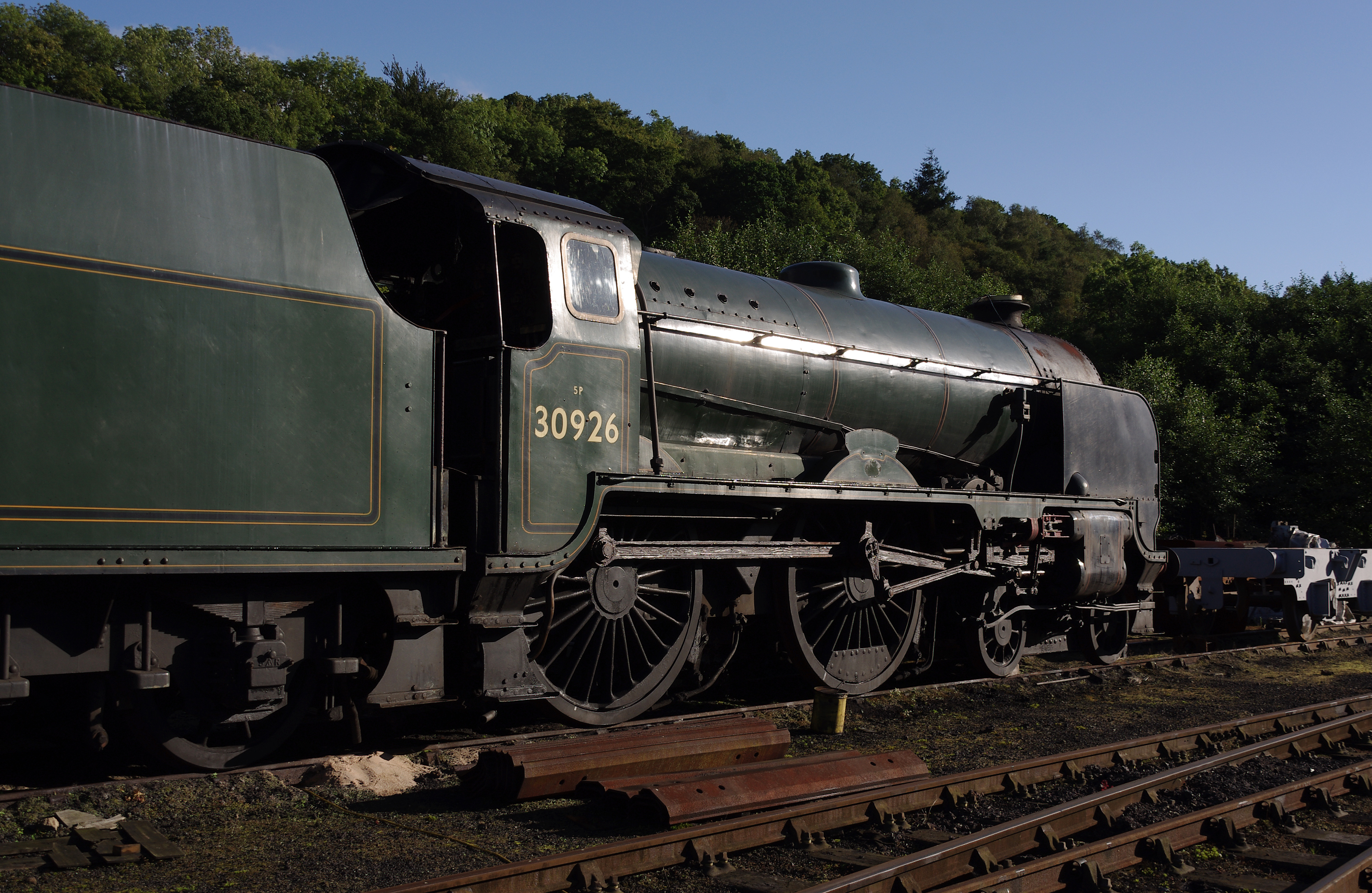 SR V "Schools" class 30926 stands in Grosmont Depot on the North Yorkshire Moors Railway.